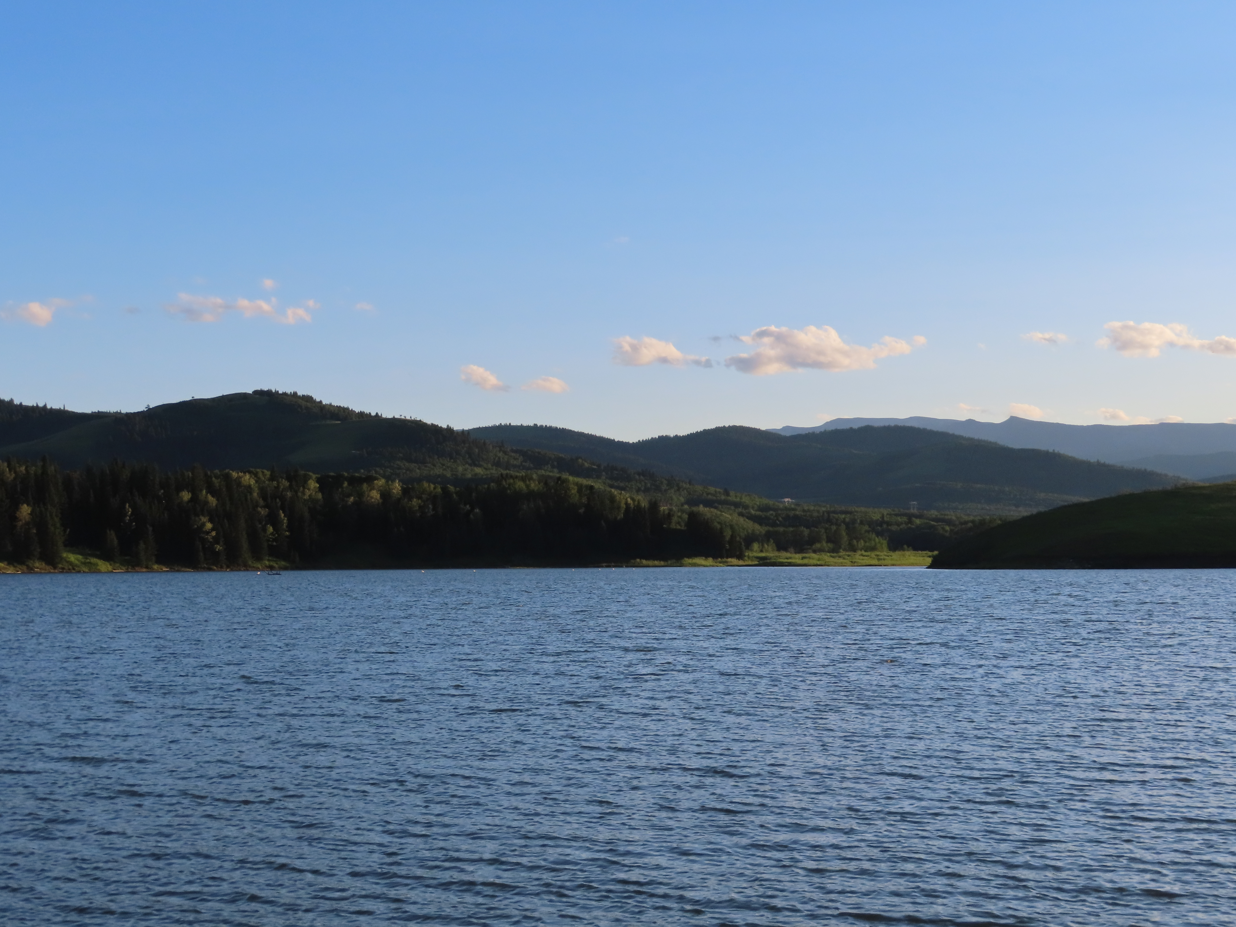 Foothills landscape in Chain Lakes Provincial Park, Alberta, Canada.